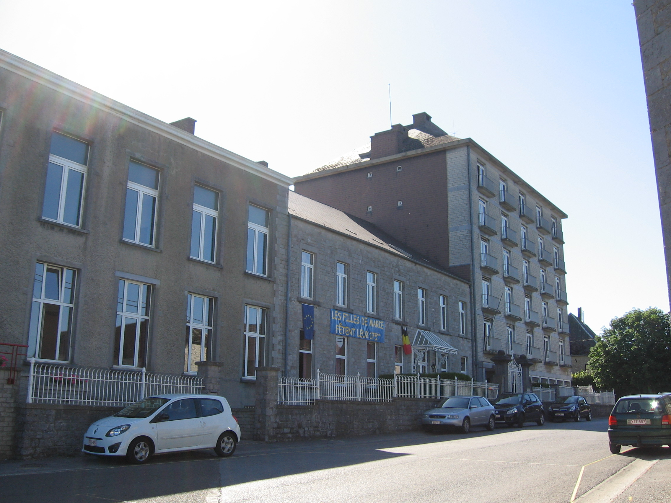 The convent (and headquarter) of the Daughters of Mary (Filles de Marie), a Catholic religious Congregation. In Pesche, Belgium.